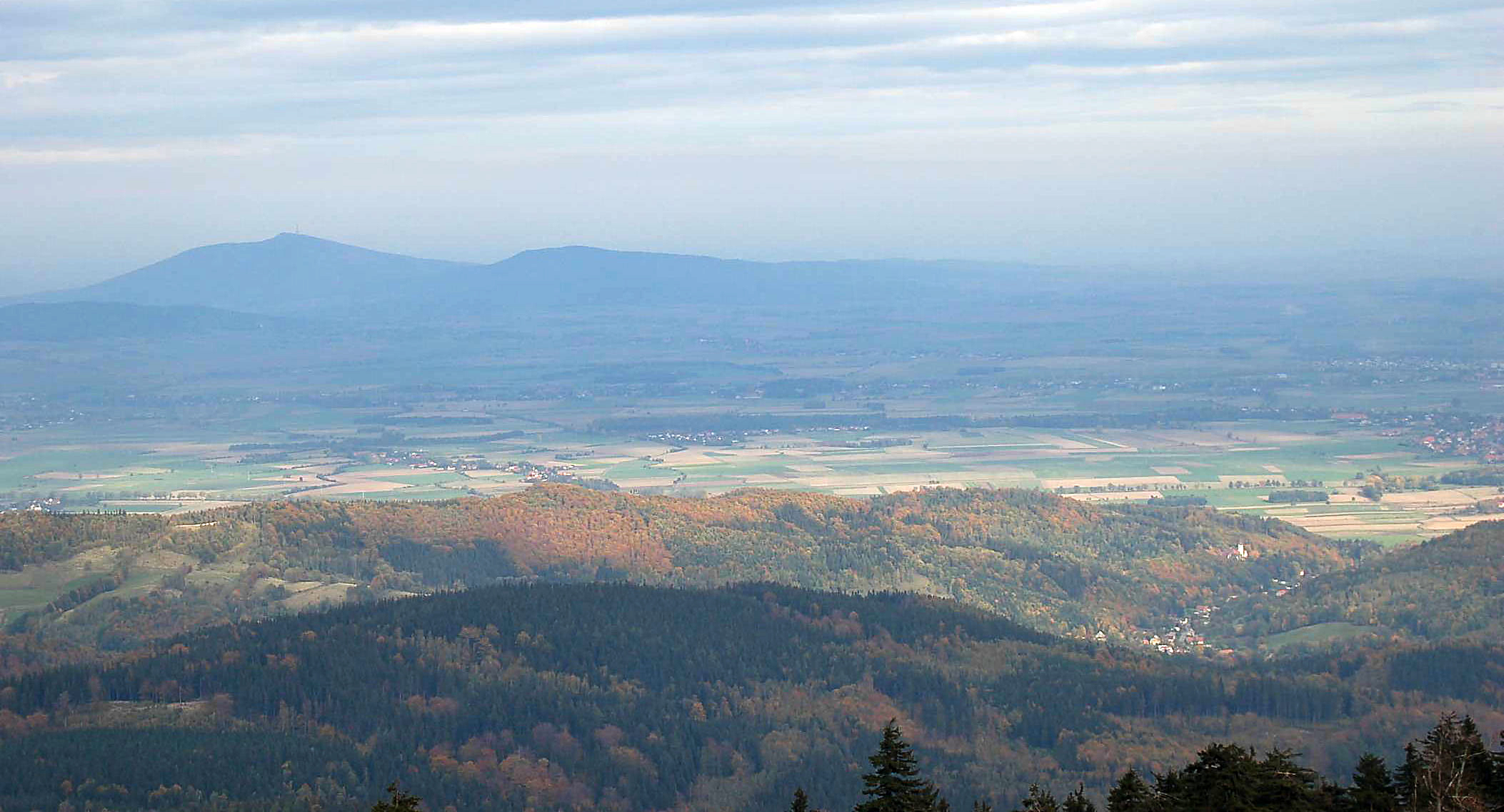 View from Wielka Sowa on Ślęża Masiff, on the left Ślęża Mt.